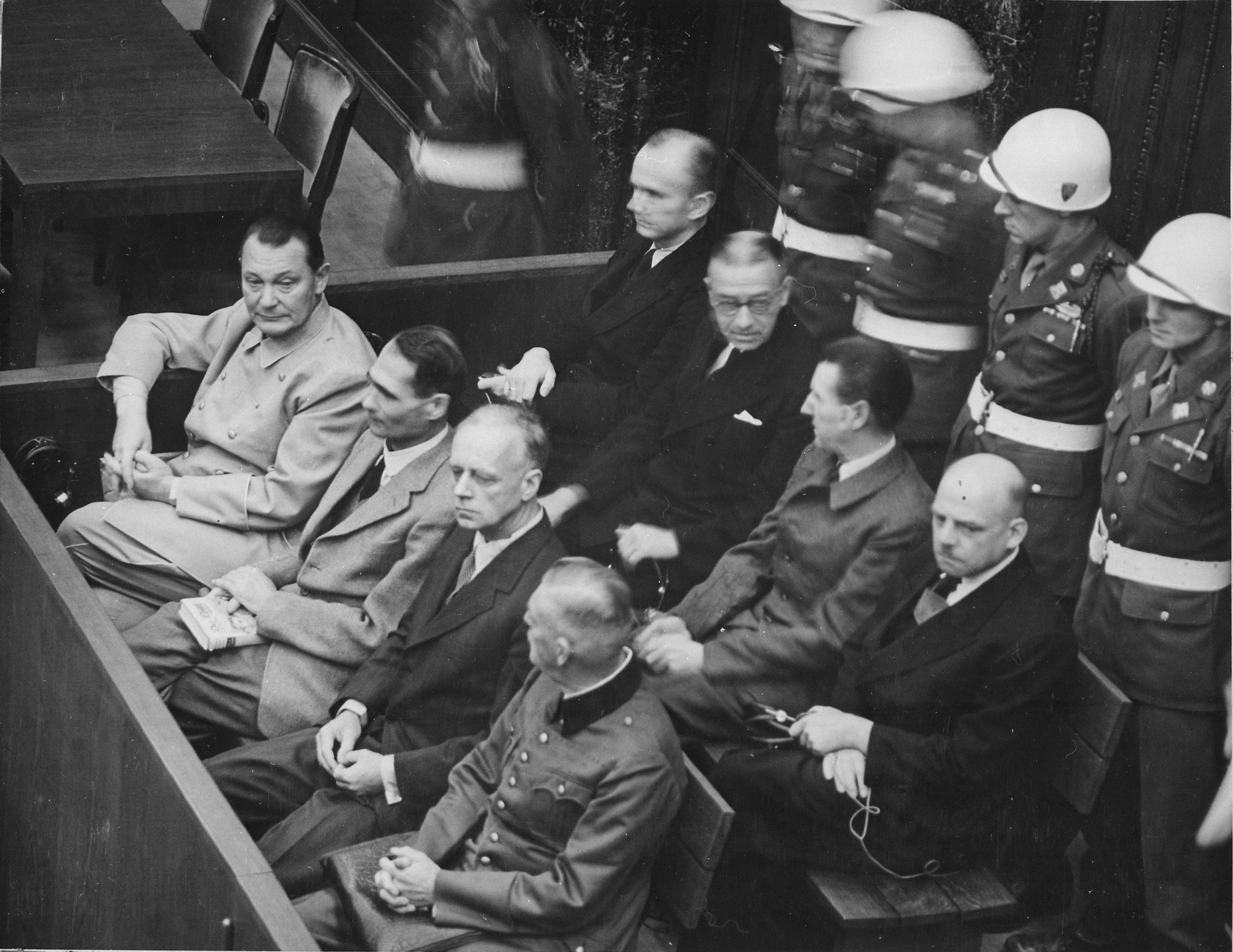 Nuremberg Trials. Defendants in their dock, circa 1945-1946. (in front row, from left to right): Hermann Göring, Rudolf Heß, Joachim von Ribbentrop, Wilhelm Keitel(in second row, from left to right): Karl Dönitz, Erich Raeder, Baldur von Schirach, Fritz Sauckel